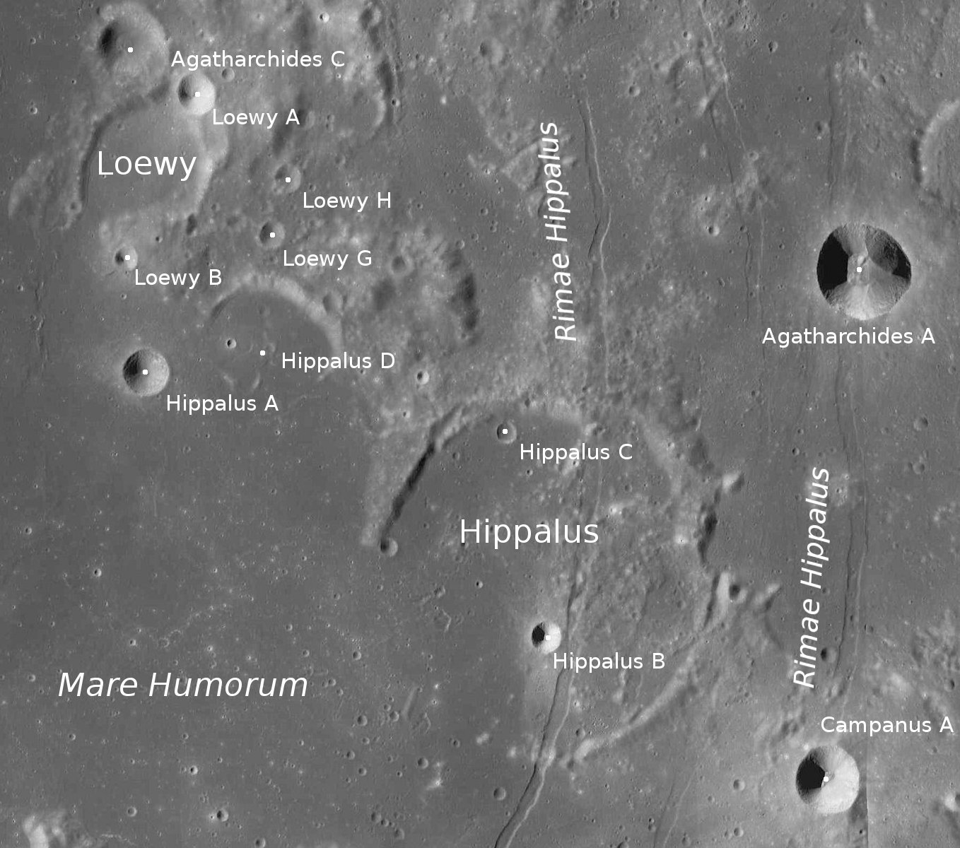 Crater Hippalus with Rimae Hippalus ans crater Loewy (detail of LRO - WAC global moon mosaic; Mercator projection)